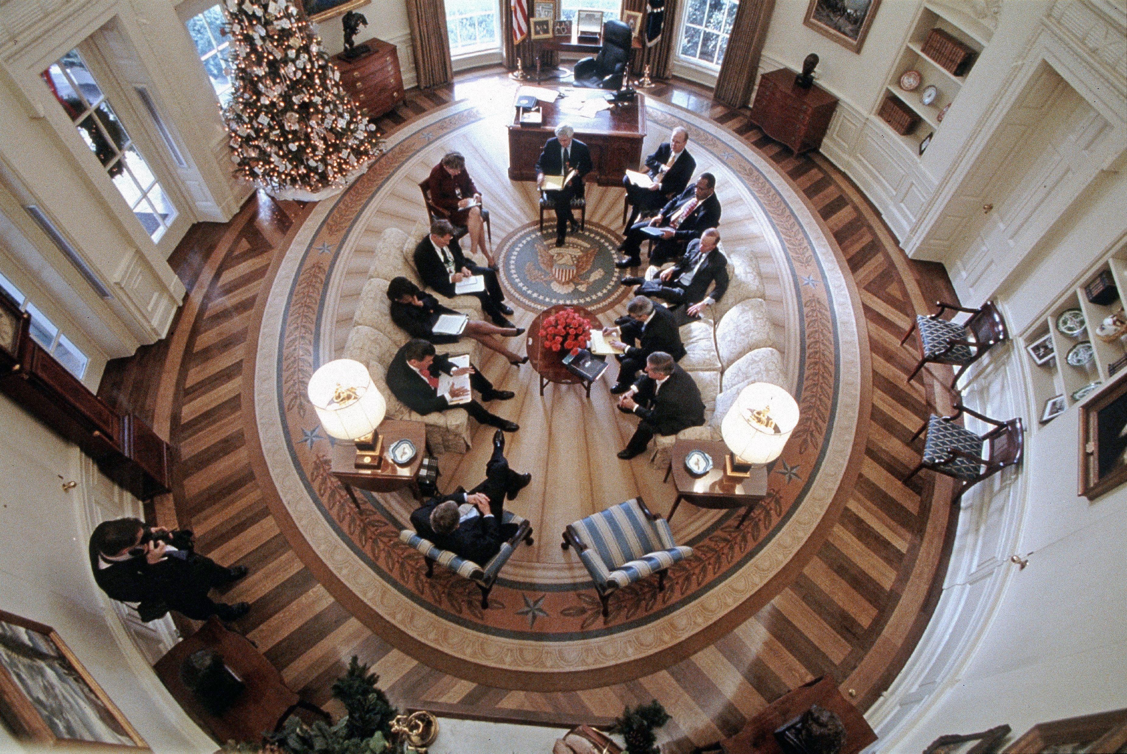 President George W. Bush hosts a meeting in the Oval Office decorated with the new presidential rug on December 20, 2001. The rug, which is unique to the Bush administration, arrived earlier in the week and was unveiled to the media on Friday December 21, 2001. Members from the Office of Homeland Security and other White House staff attended the meeting. The participants included (clockwise from the bottom), President George W. Bush, Governor Tom Ridge, Condoleezza Rice, Admiral Steve Abbot, Karen Hughes, Dean McGrath, Karl Rove, Albert Hawkins, Mitch Daniels, Josh Bolten, and Andy Card. White House photo by Paul Morse.